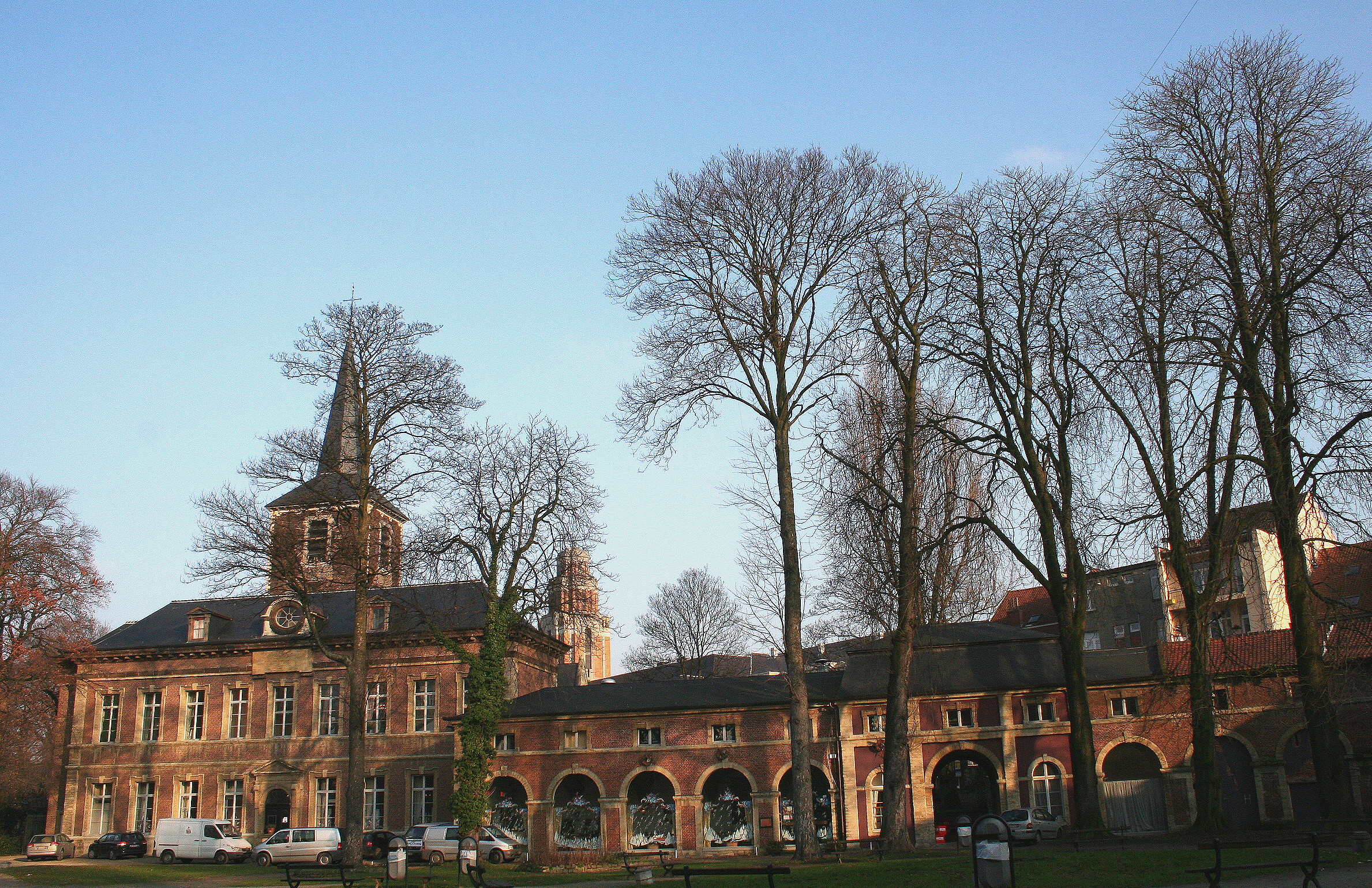 Forest (Belgium), northern wing of the old Abbey (XII-XVIIIth century).